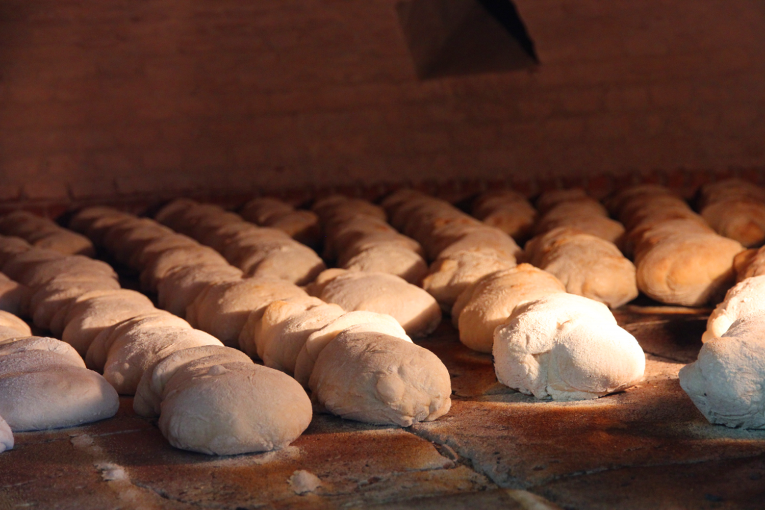 Pão de Mafra